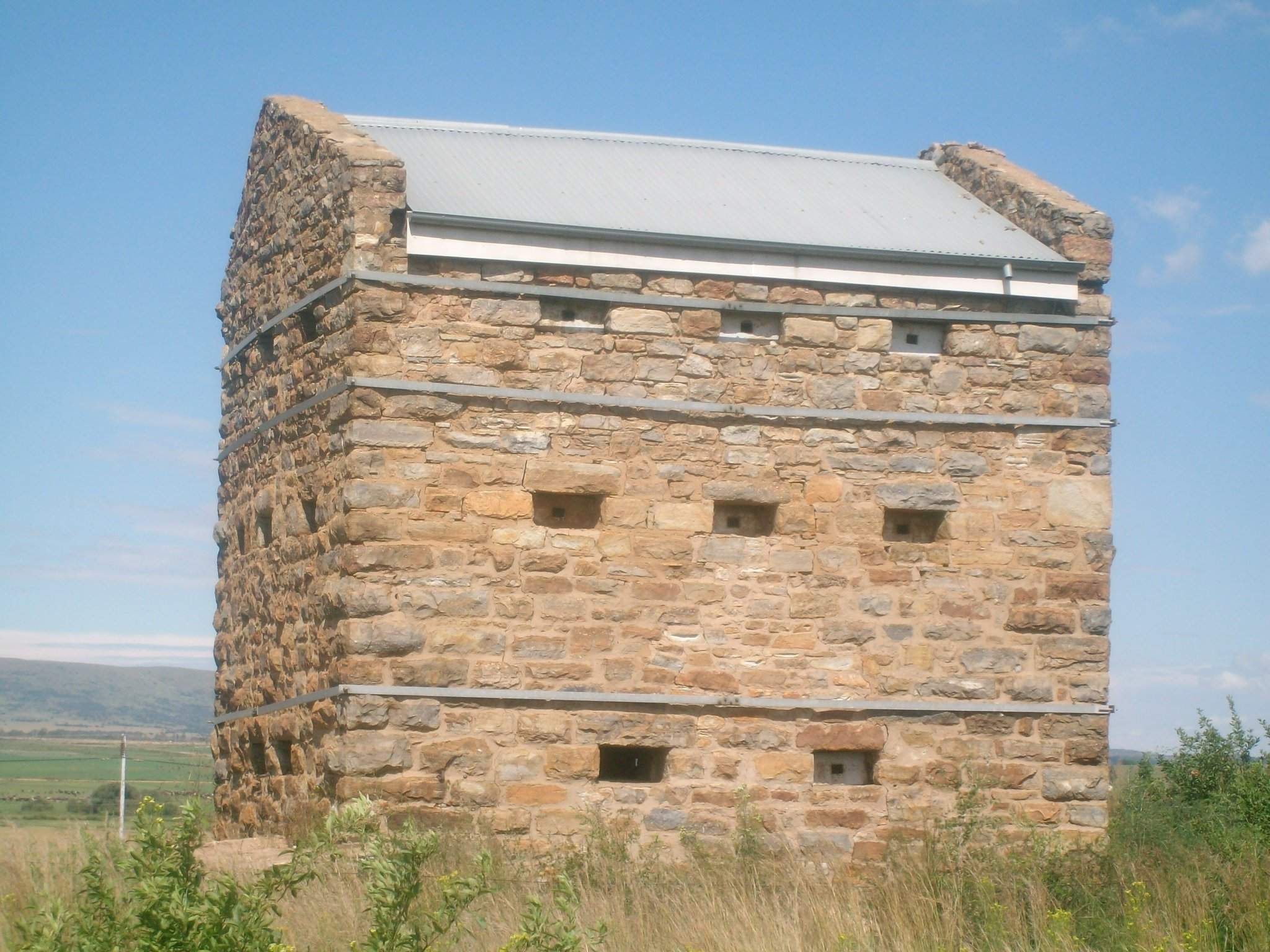 In a very neglected state unfortunately. This media shows a South African Protected Site with SAHRA file reference 9/2/277/0007.